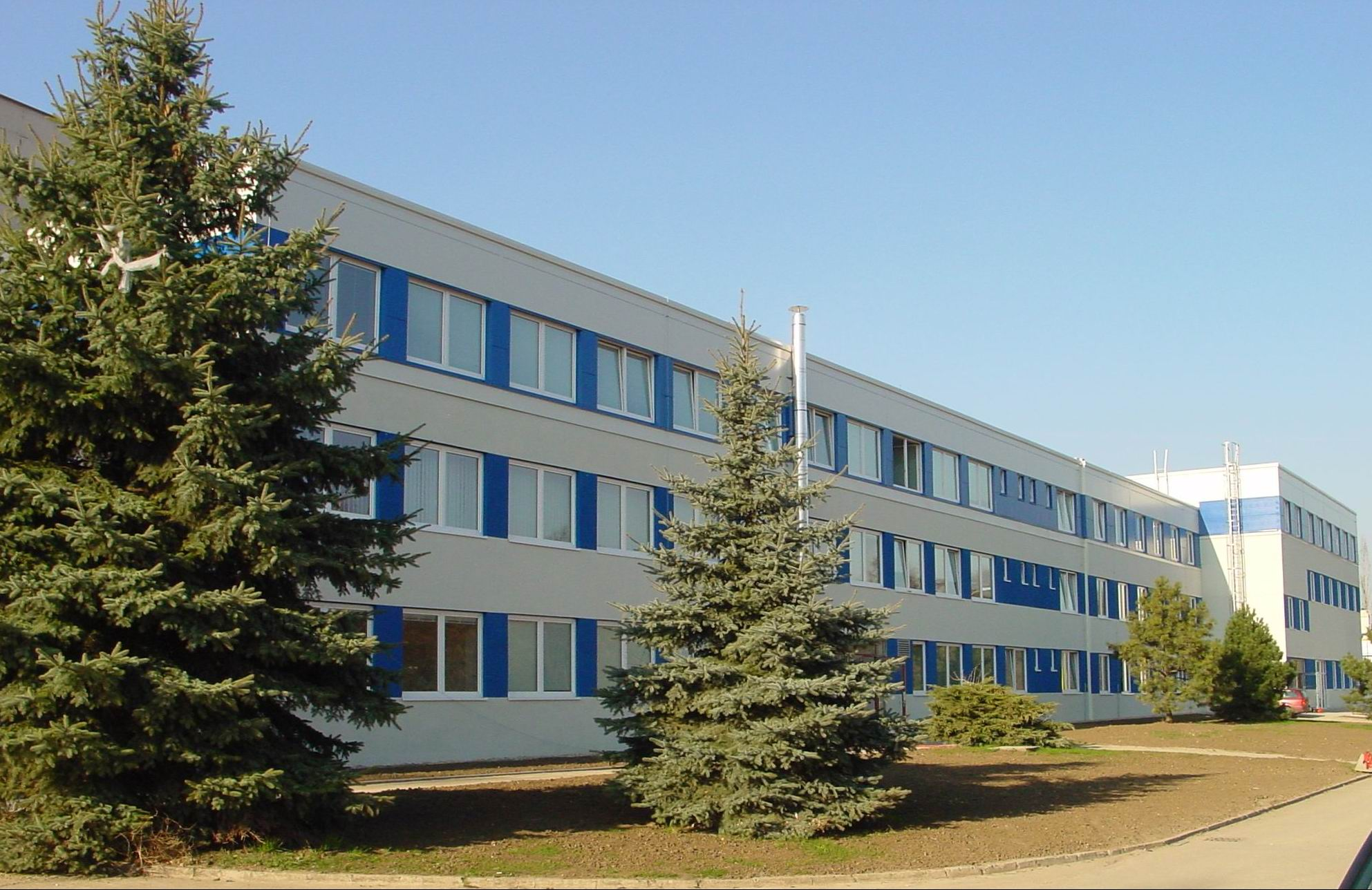 Prazska strojírna - administrative building